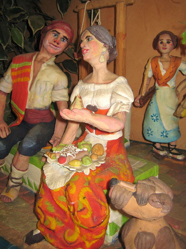 Marzipan figurines for the Sant Donís festivity in Valencia, Spain.